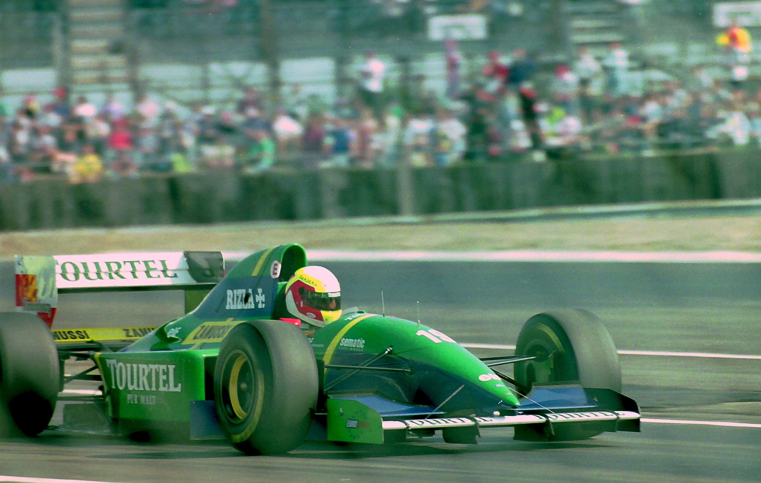 Olivier Beretta - Larrousse LH94 at the 1994 British Grand Prix